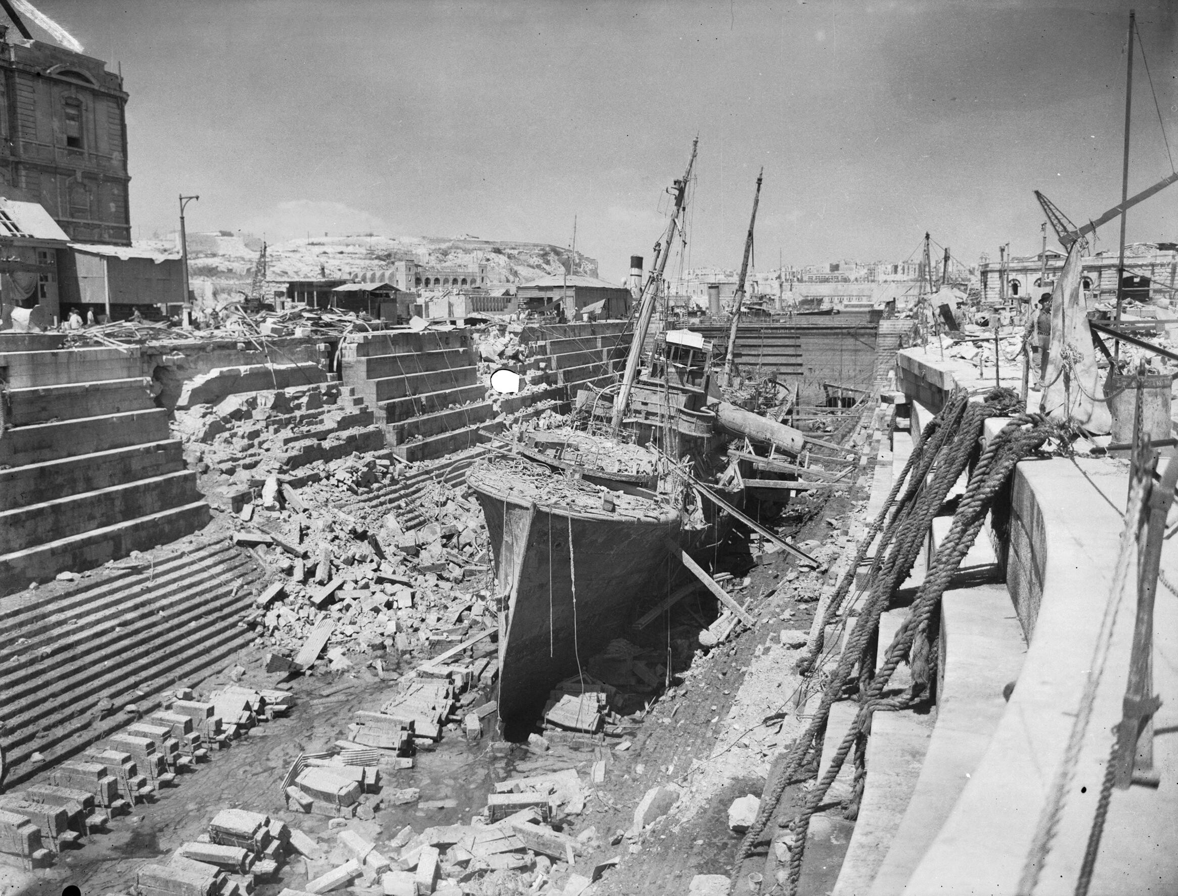 The Royal Navy during the Second World War HMS CORAL being broken up in Dry Dock No 3 in Malta Dockyard.